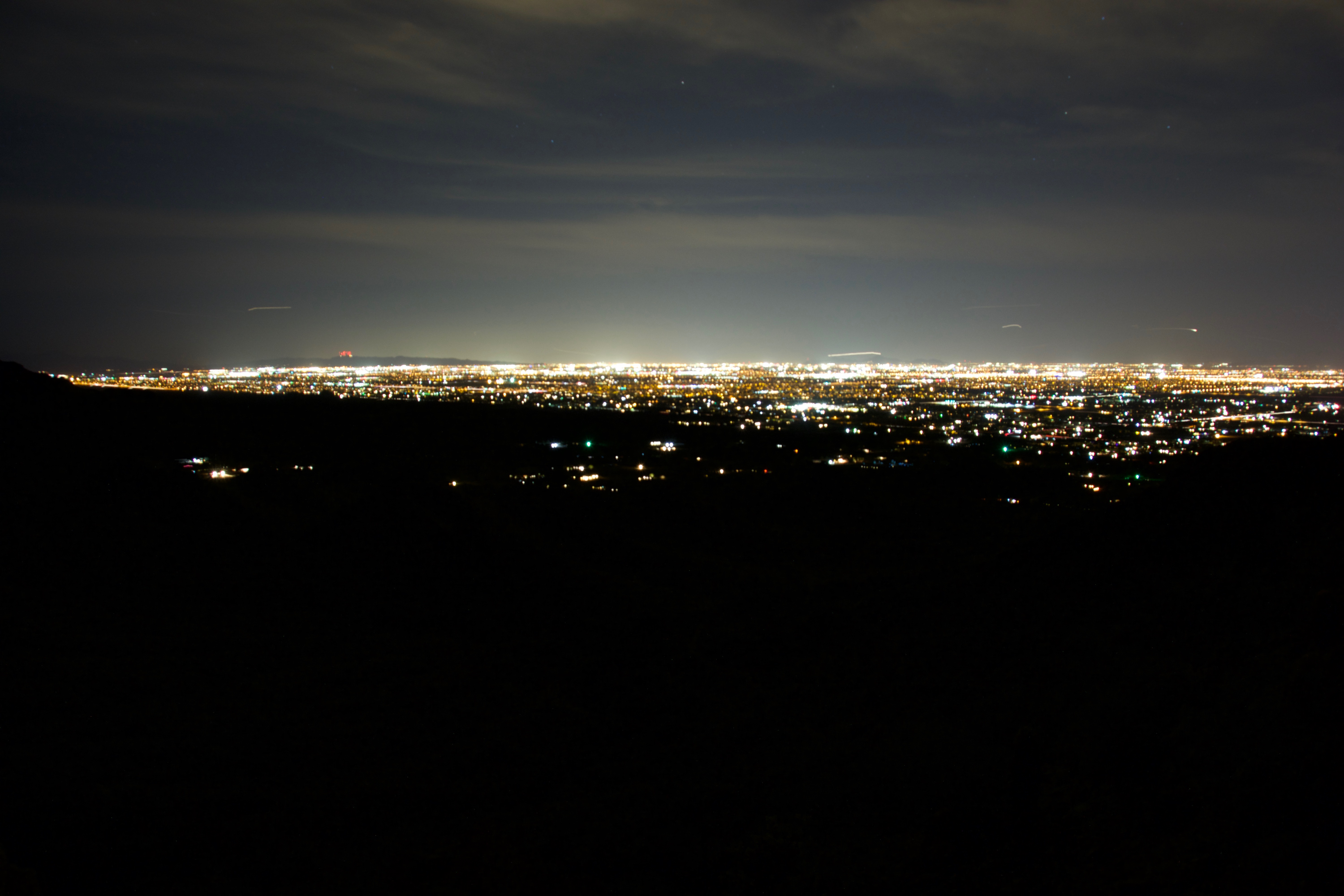 A view of the light clutter and pollution of the Phoenix metro area, taken from the top of Goldmine trail in the San Tan Mountains.